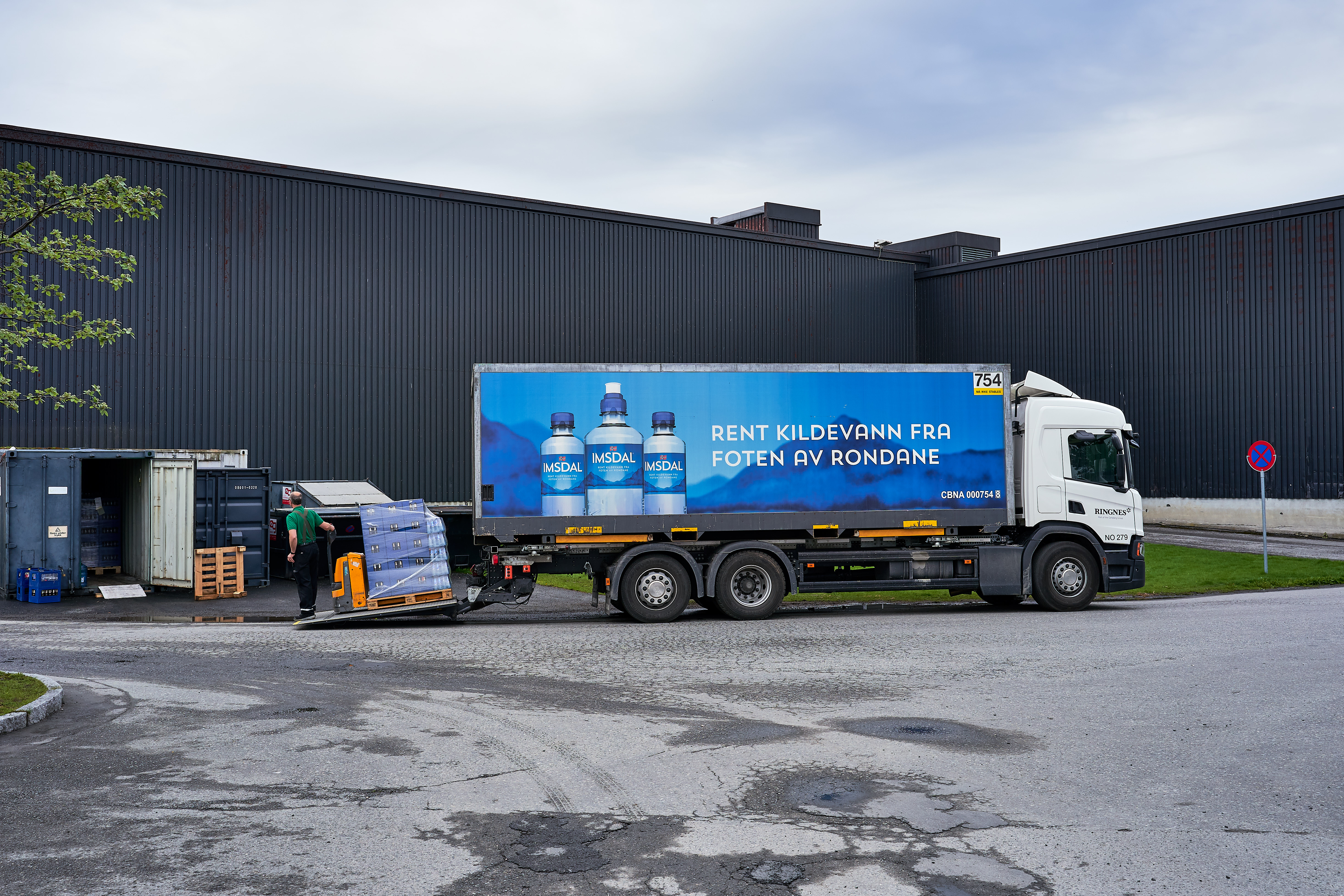 Bottled water from Rondane Mountains in Norway.